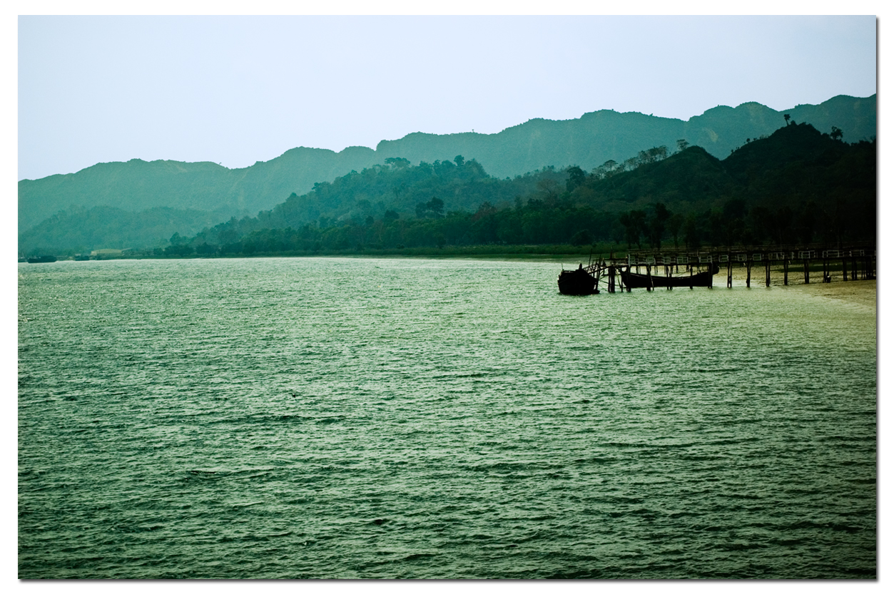 Date & Location 6th March, 2009 Teknaf Port, Teknaf Bangladesh